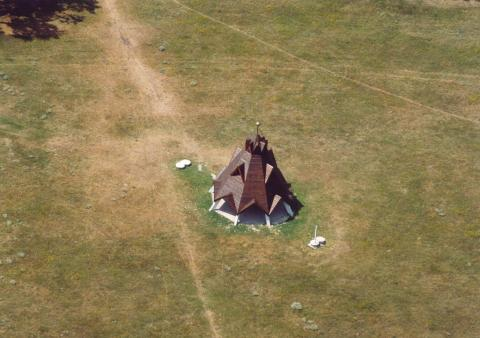 Pusztavacs, Hungary, aerialphotography